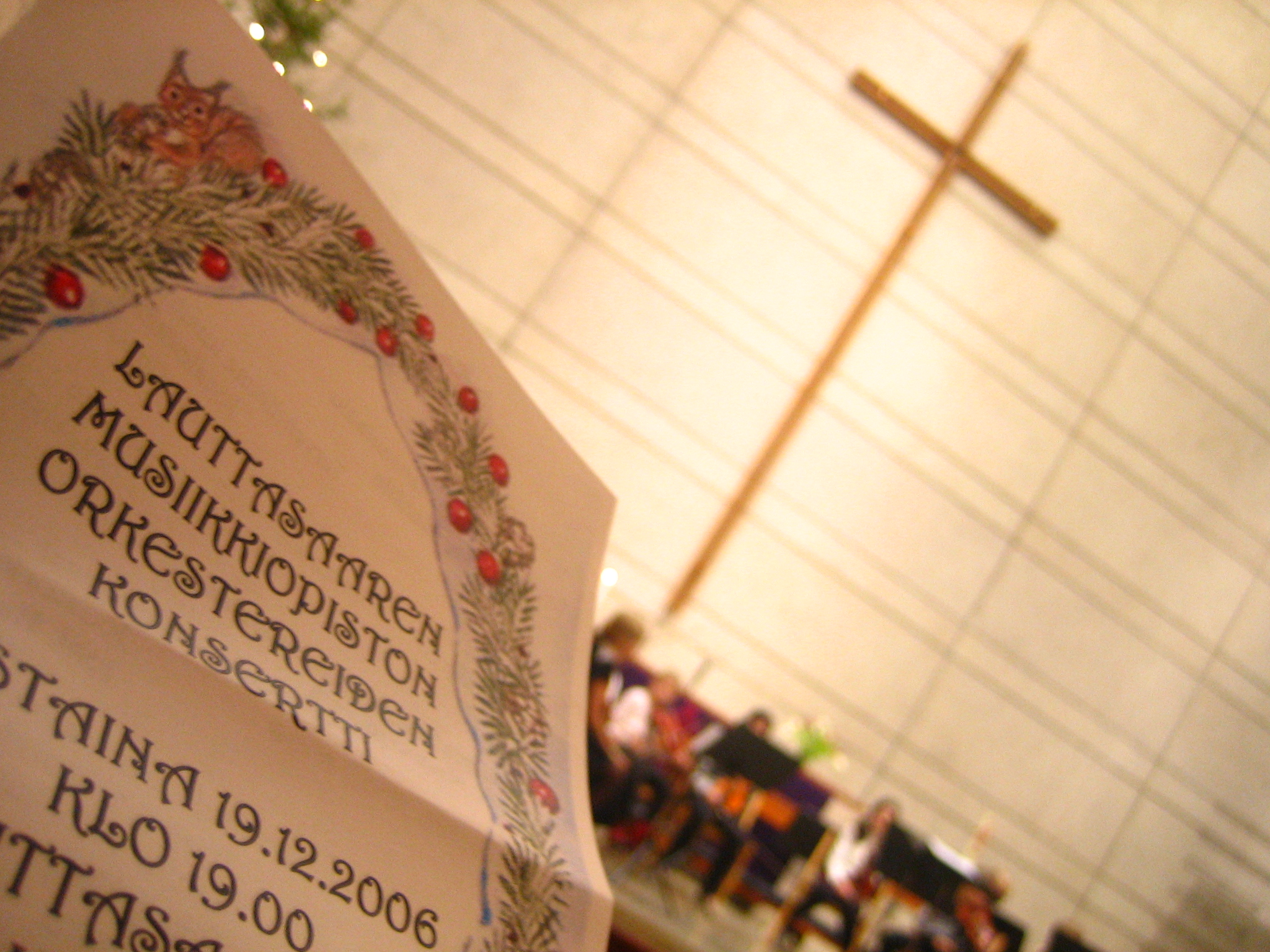 Interior of Lauttasaari church in Helsinki